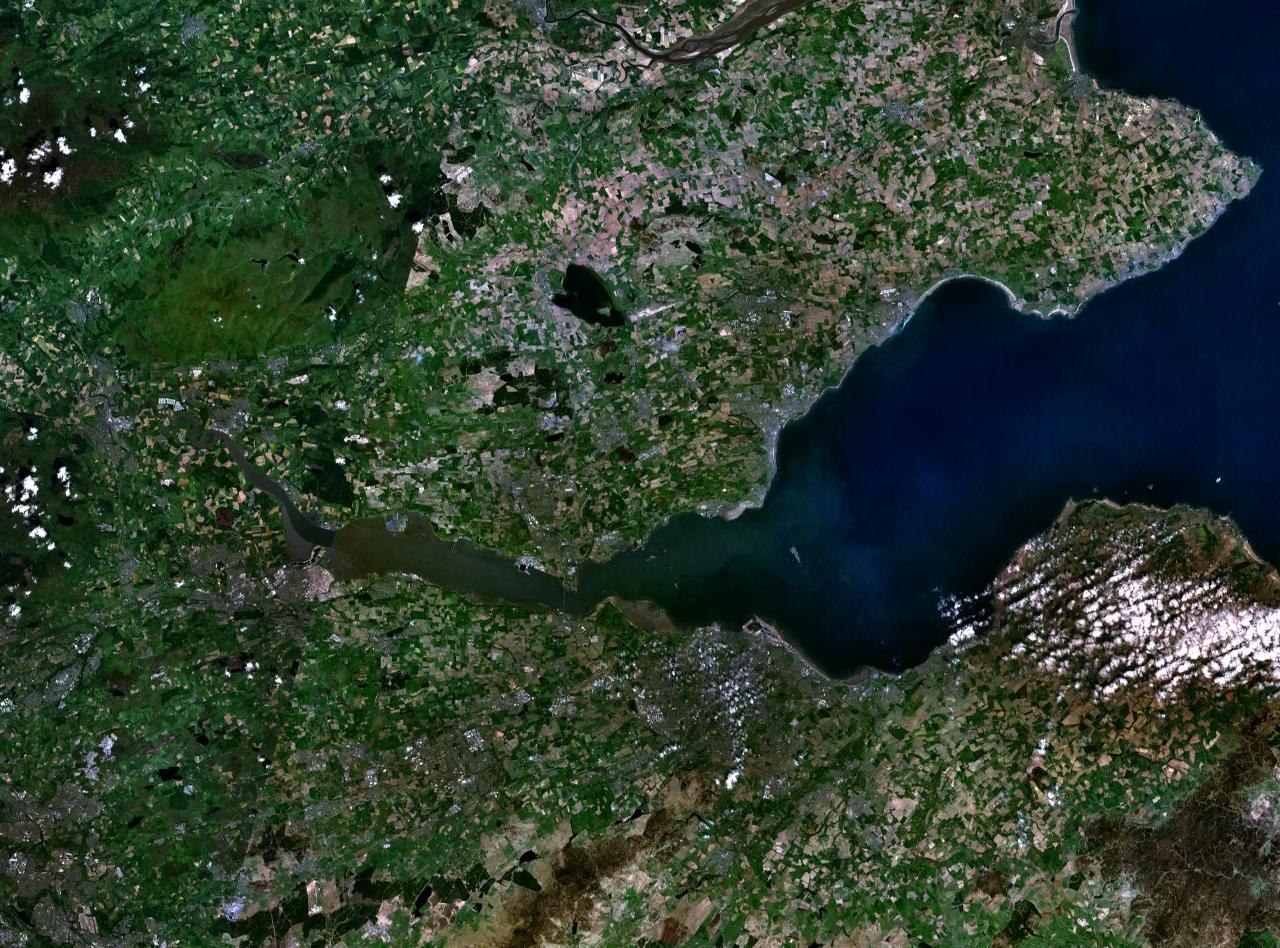 The Firth of the river Forth, on the east coast of Scotland. The two forth bridges are visible near the centre of the frame. Stirling is at the extreme left side.